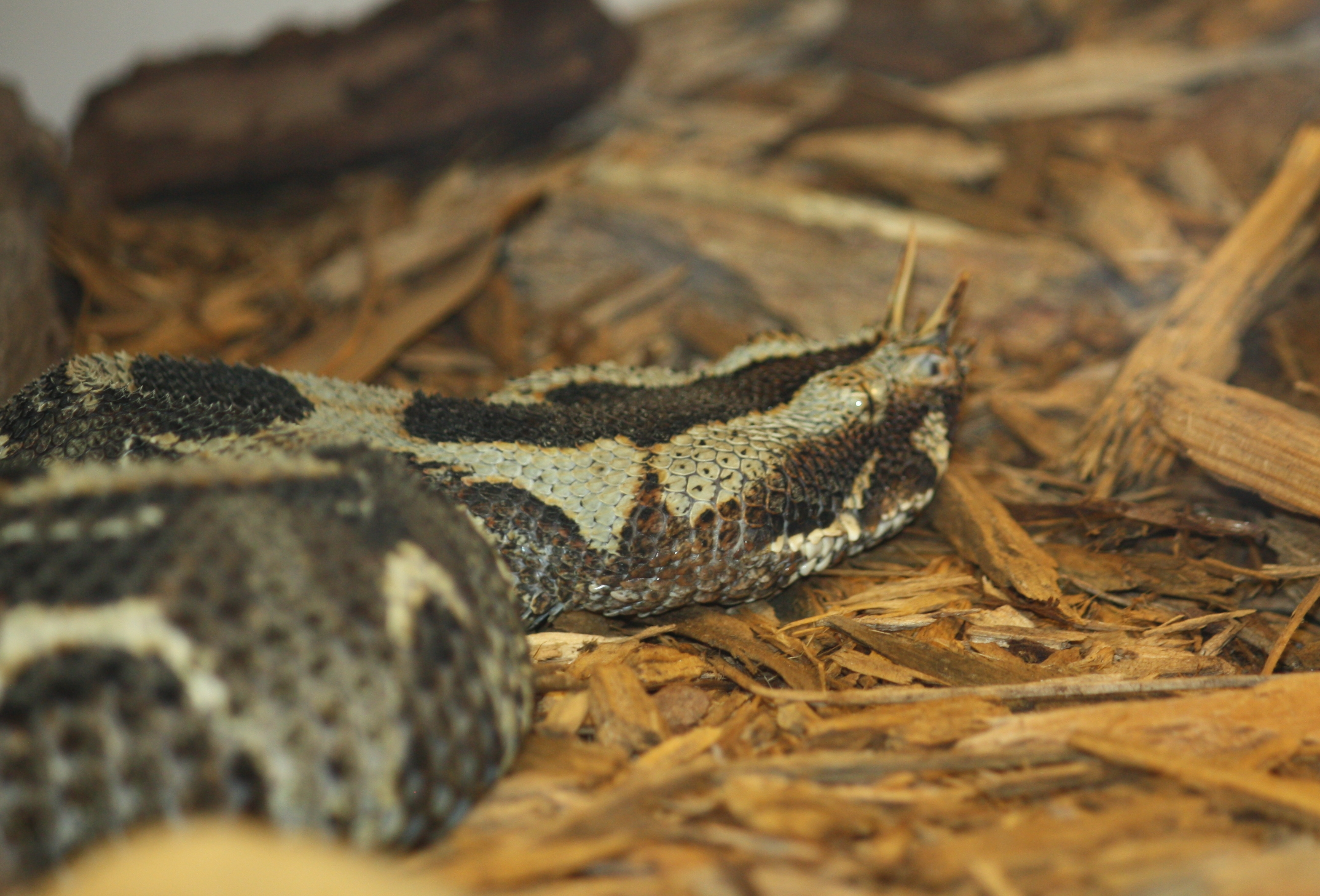 Rhinoceros Viper Bitis nasicornis at Cincinnati Zoo